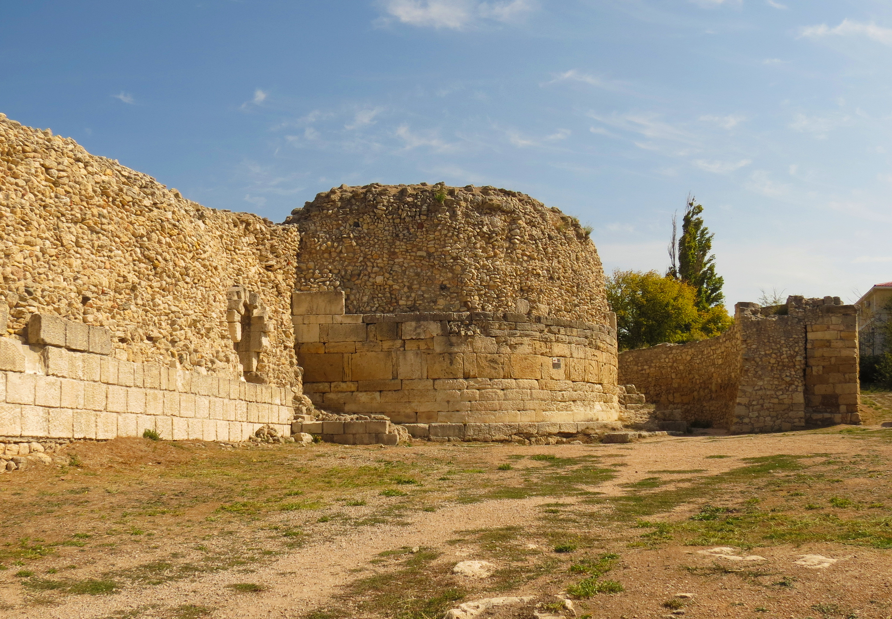 Zenon tower. Chersonesos Taurica, Ukraine